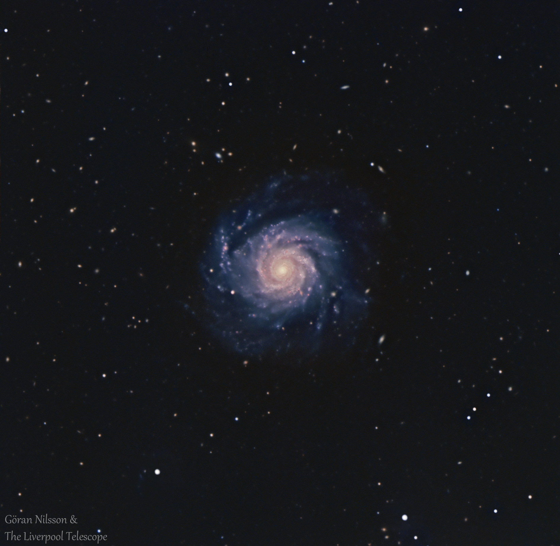 RGB image of the galaxy NGC 2776 by the Liverpool Telescope, a 2 m RC telescope on La Palma. Processed by Göran Nilsson. Exposure: 104 x 90 s = 2.6 hours.